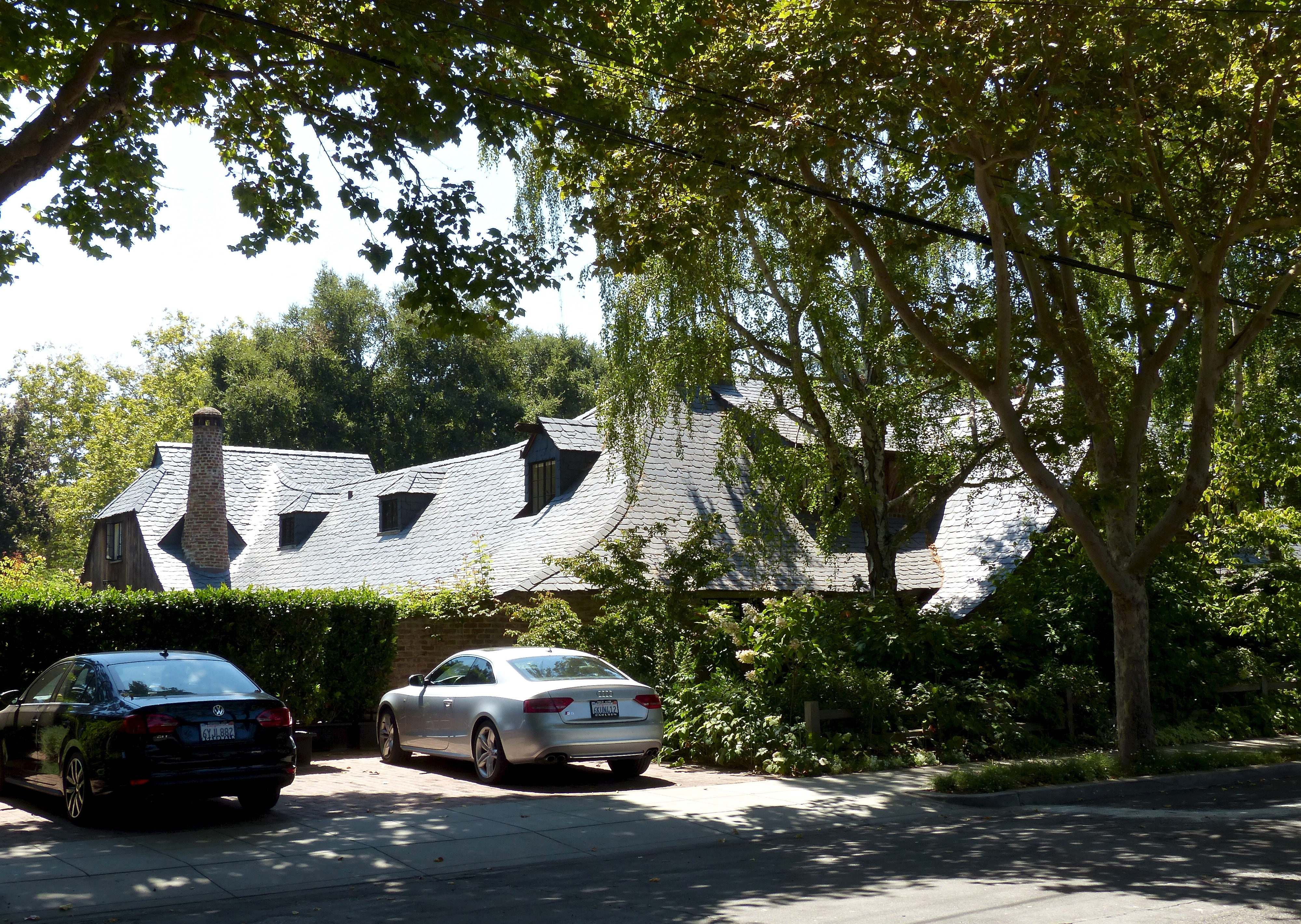 Steve Jobs's House in Palo Alto